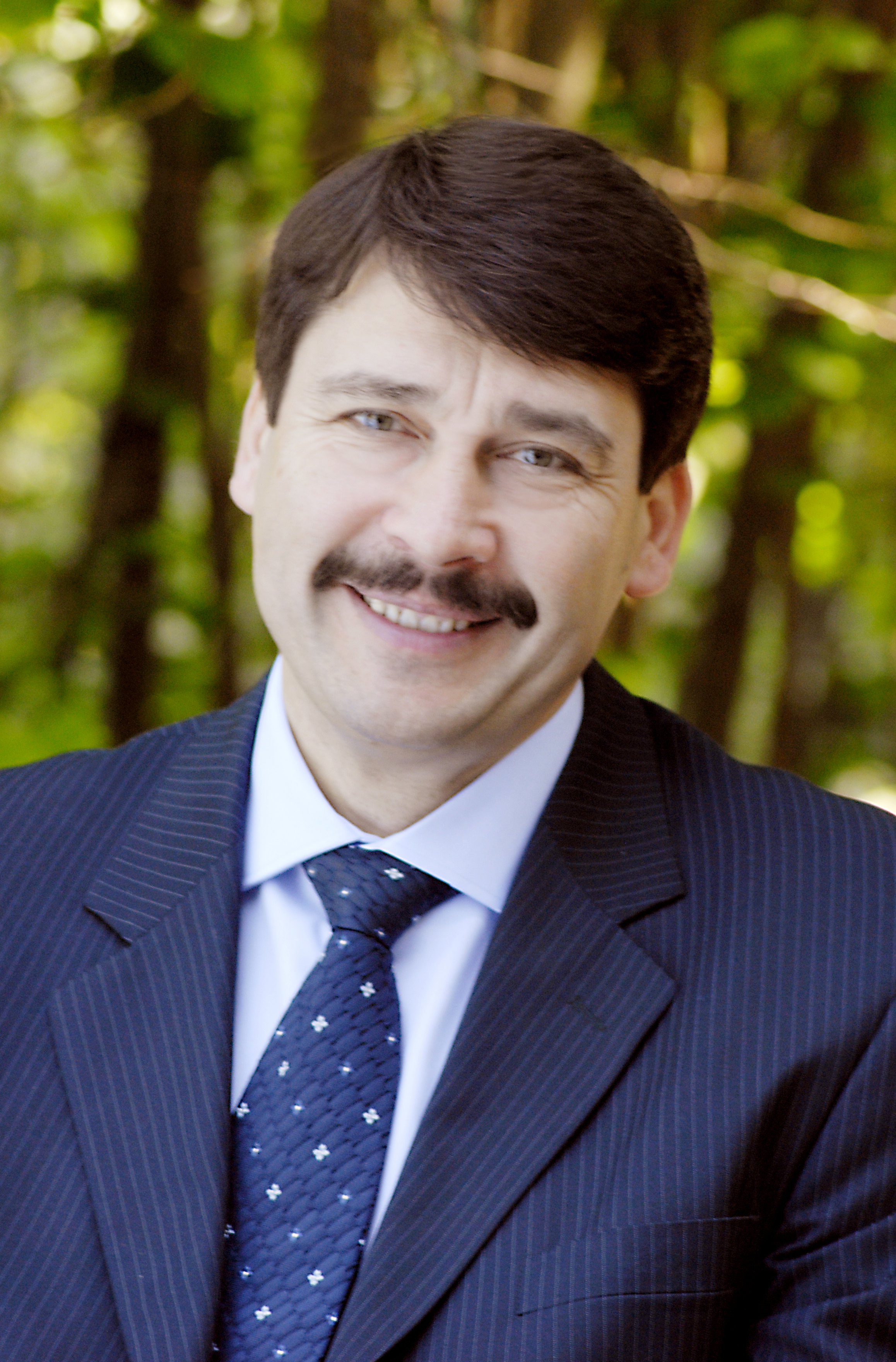 Janos Ader, Hungarian lawyer and politician, who currently serves as President of Hungary since May 10, 2012.